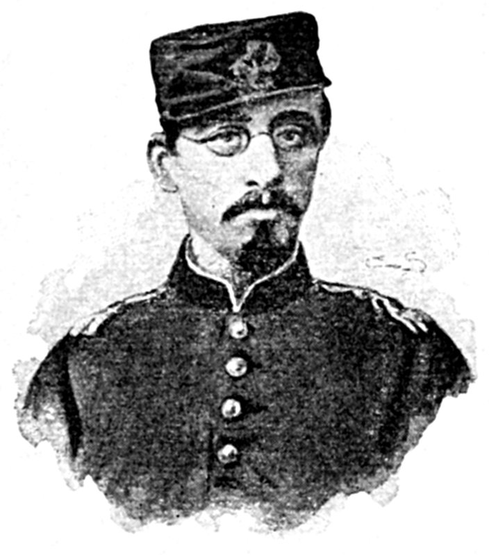 Illustration from book Storia dei Mille by Giuseppe Cesare Abba - Carlo Mosto